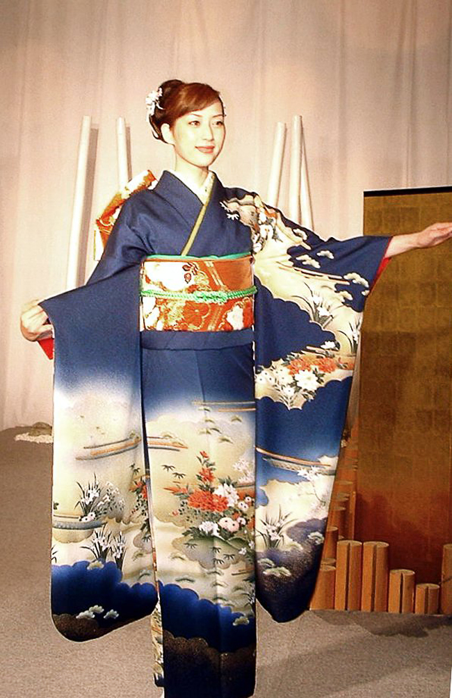 A Japanese woman wears a kimono. Photo taken by Lukacs in Kyoto in 2003.